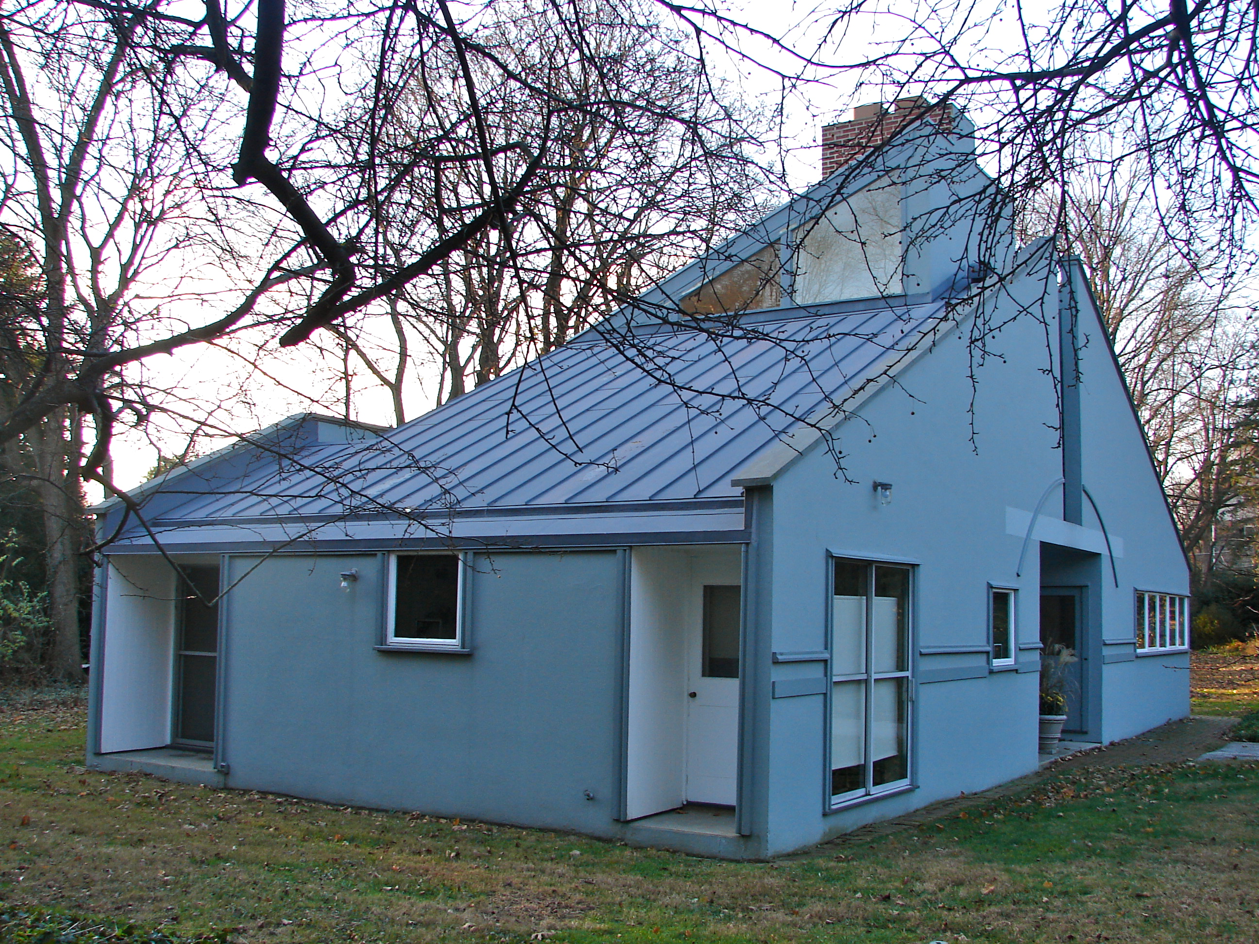 Vanna Venturi House from the southeast (front side). V V House is viewed as the first Post-modern building, being designed in the early 1960s by architect Robert Venturi for his mother. In the Chestnut Hill neighborhood of NW Philadelphia. The entire neighborhood is a National Register of Historic Places historic district.